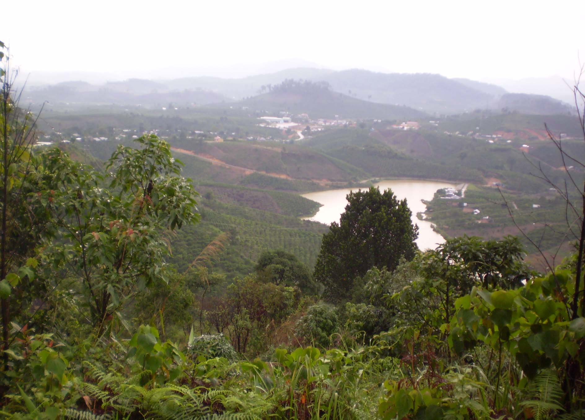 Da K’Nang commune, Dam Rong district, Lam Dong provice, Vietnam